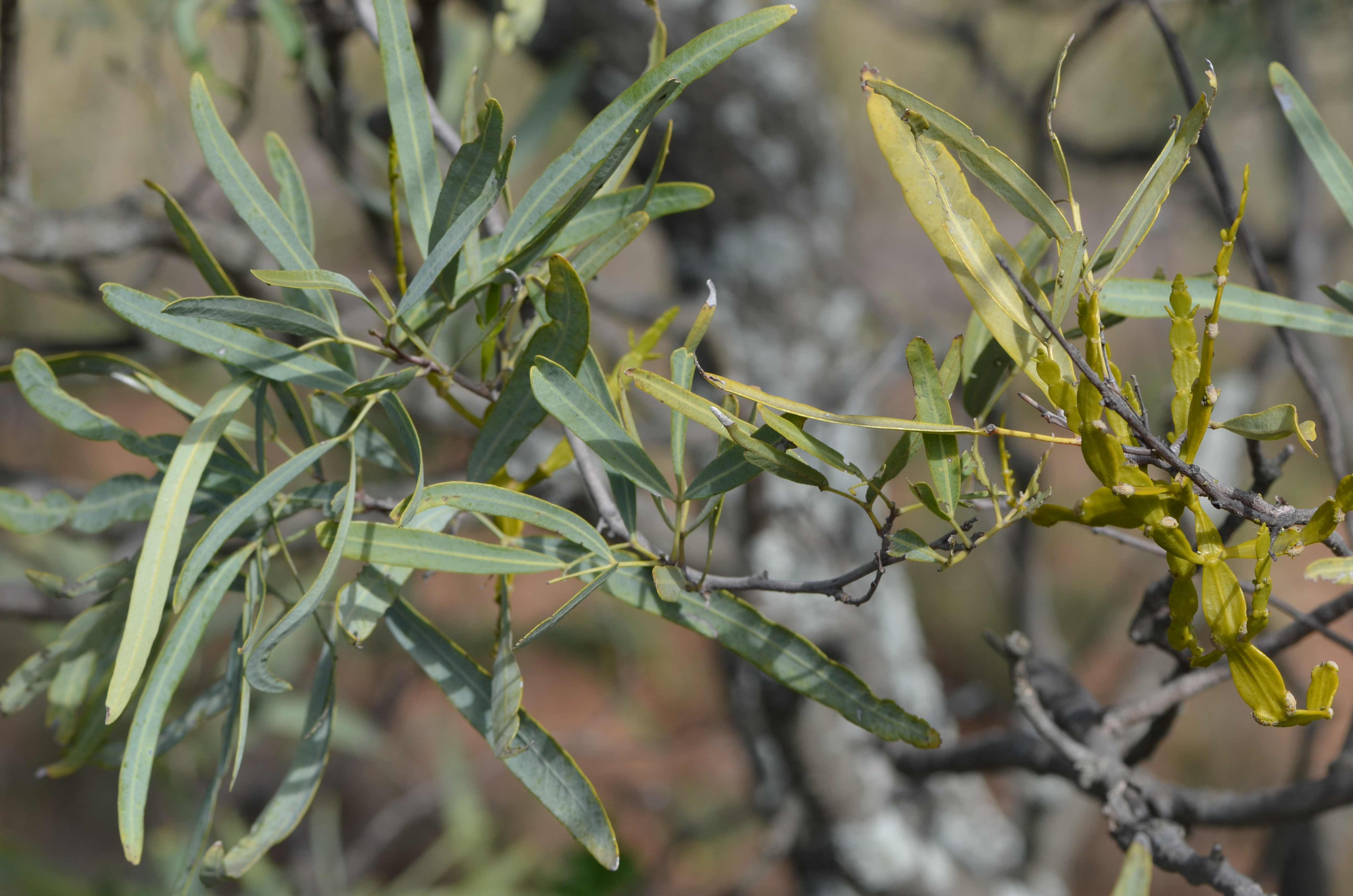 Jointed mistletoe Korthalsella rubra on Atalaya hemiglauca, just north of Breeza, NSW, Australia, 14 June 2015